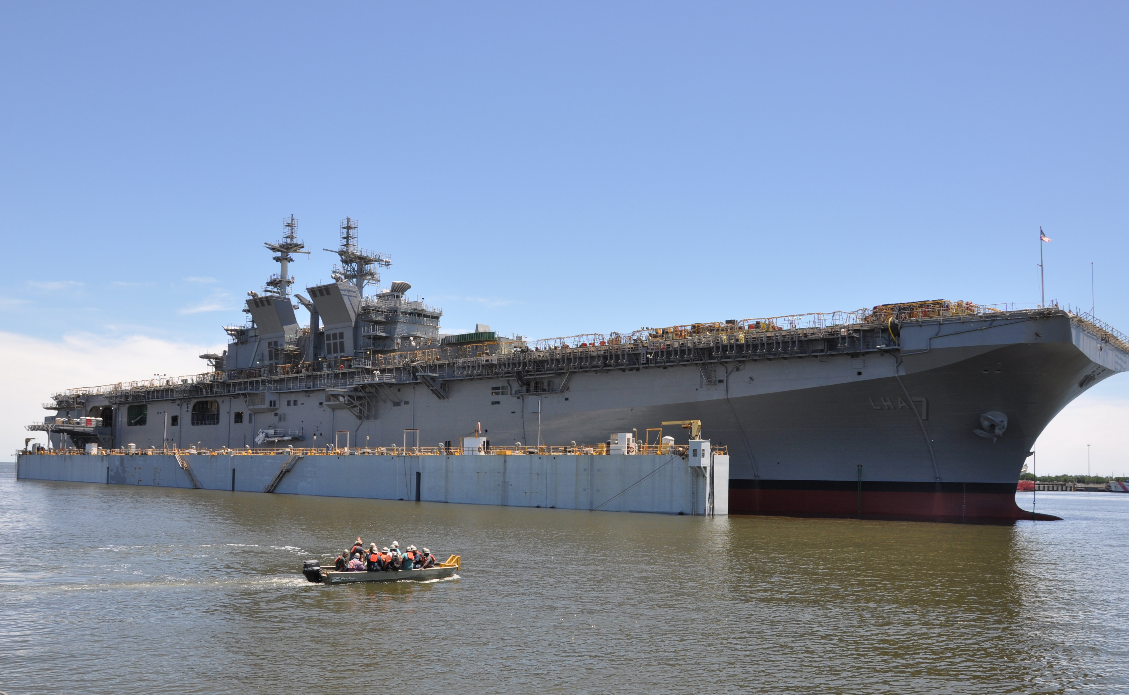 The U.S. Navy amphibious assault ship USS Tripoli (LHA-7) is launched at Huntington Ingalls Industries in Pascagoula, Mississippi (USA) on 1 May 2017. Tripoli was successfully launched after the dry-dock was flooded to allow it to float off for the first time. Tripoli incorporates an enlarged hangar deck, enhanced maintenance facilities, increased fuel capacity and additional storerooms to provide the U.S. Navy with a platform optimized for aviation capabilities.